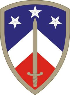 US Army 230th Sustainment Brigade SSI from